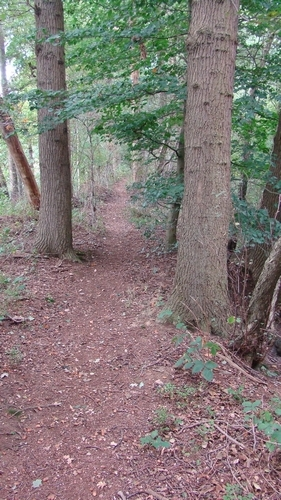 National Landscape Winterswijk